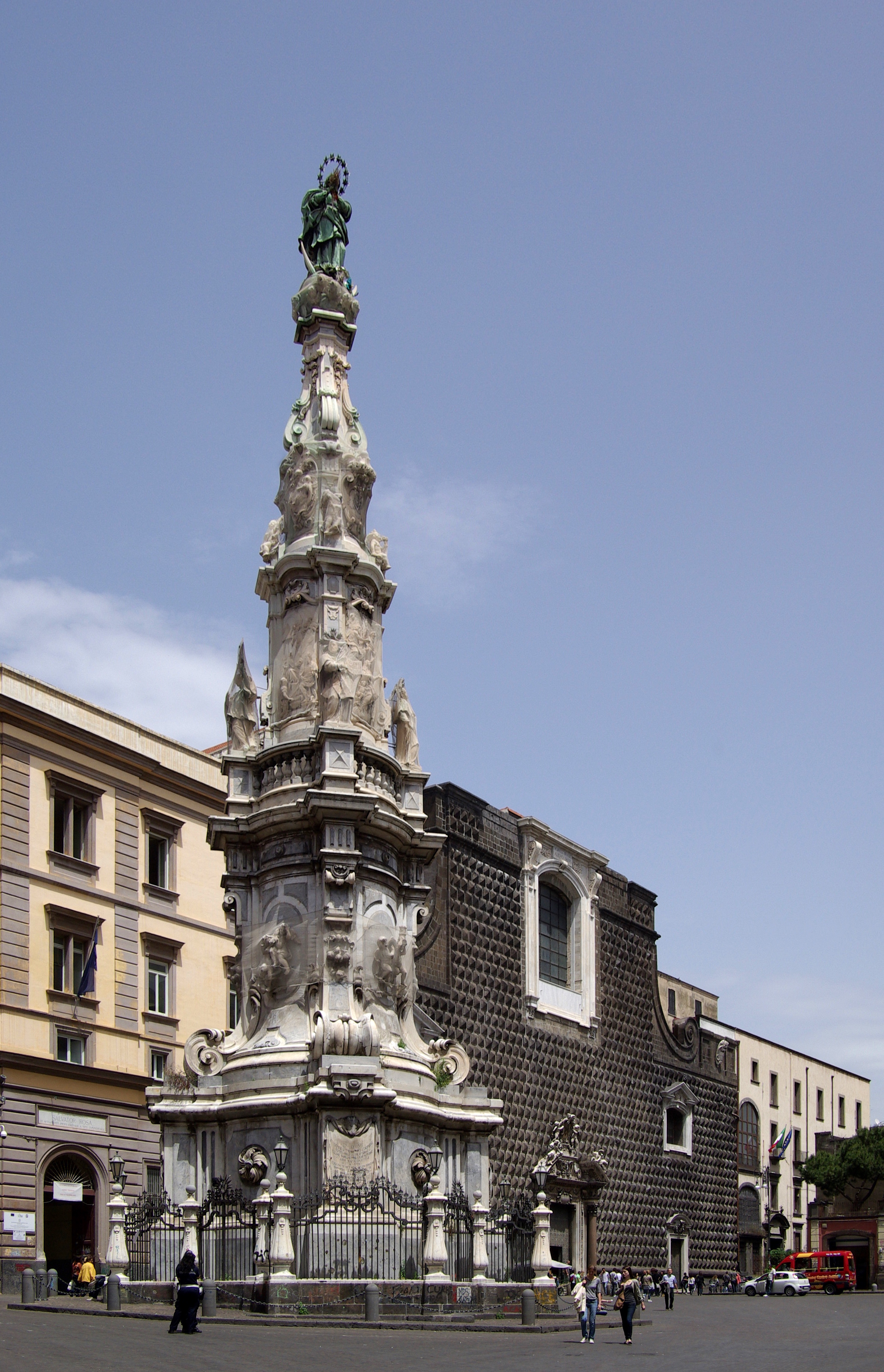 Naples, Spire of the Immaculate Virgin, Guglia dell'Immacolata